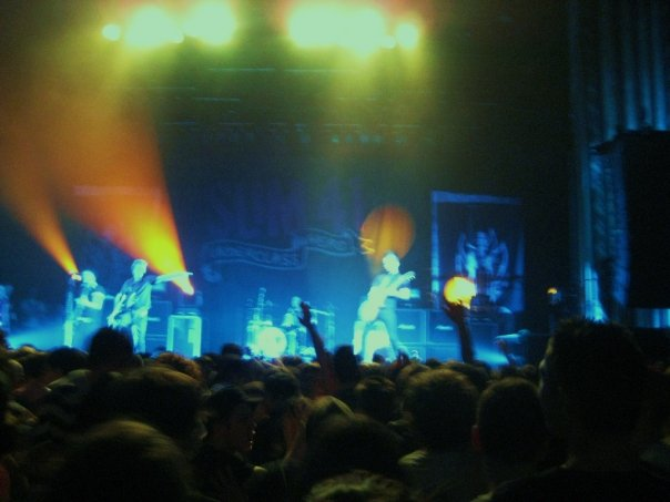 The band Sum 41 in concert at Metropolis in Montreal.